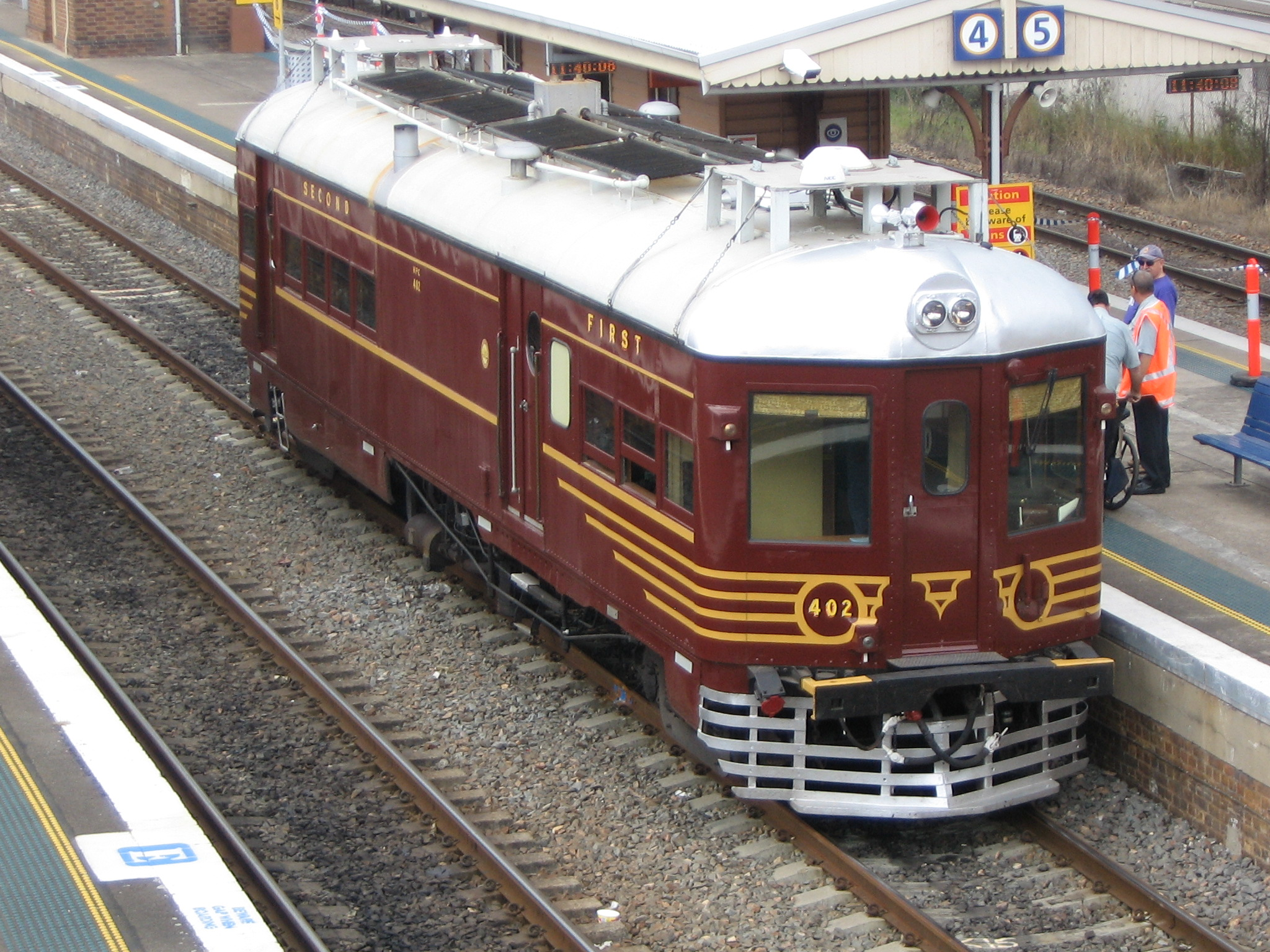 HPC waits for leaving time during Steamfes 2009